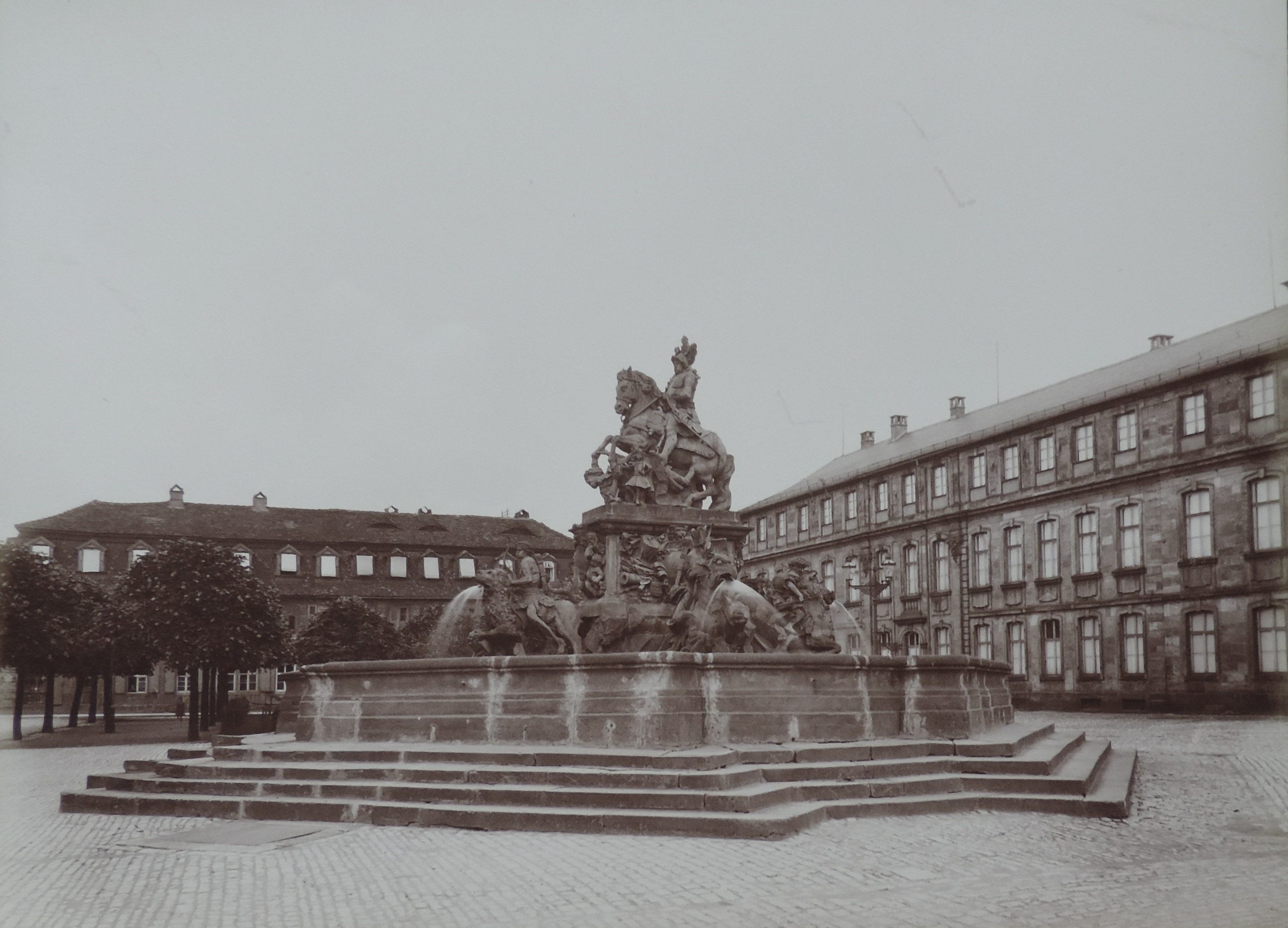 Views and photos of Bayreuth, Germany, gifted to Ferdinand I of Bulgaria to commemorate his 25-year rule. A fountain with a monument of Christian Ernst from 1689.